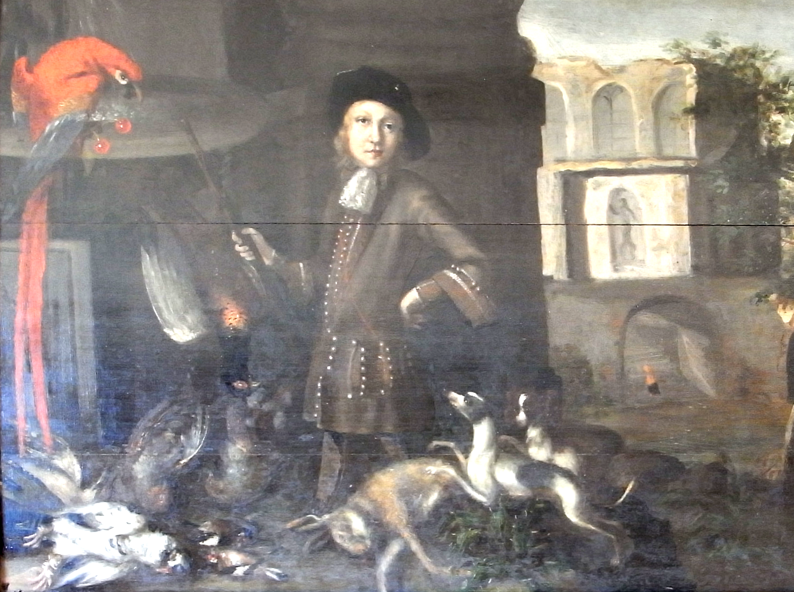 Detail from (early 18th century?) oil on panel overmantel painting in Drawing Room of Upcott Barton in the parish of Cheriton Fitzpaine, Devon. The right side of the panel has here been cropped, and shows an extensive capriccio scene of ruined classical buildings within a riverscape. Description of scene: An English country gentleman stands (with excessively foreshortened legs) with shotgun in his right hand also holding a killed cock pheasant. A parrot holding a pair of cherries in his right foot drinks whilst perching on an ornamental water fountain. At his feet are his other sporting prizes, namely other killed birds. His two greyhound dogs rear up at their master over the body of a killed hare. To the right is a capriccio (mostly cropped out of this view) showing a ruined classical structure, possibly a representation of the Forum of Trajan or Baths of Caracalla in the Forum of Rome, with arcades and below an aedicule containing a classical sculpture of a standing male reminiscent of the Discobolus (discus thrower). In summary a scene depicting a cultured English country gentleman who had been on a "Grand Tour" to Rome. The ceiling of the room in which the painting is situated is contemporary and is decorated with plasterwork forms of sporting prizes consisting mainly of groups of 3 hares, salmon, pheasants, flat-fish (soles), and moorcocks (which appear in the canting arms of Moore)